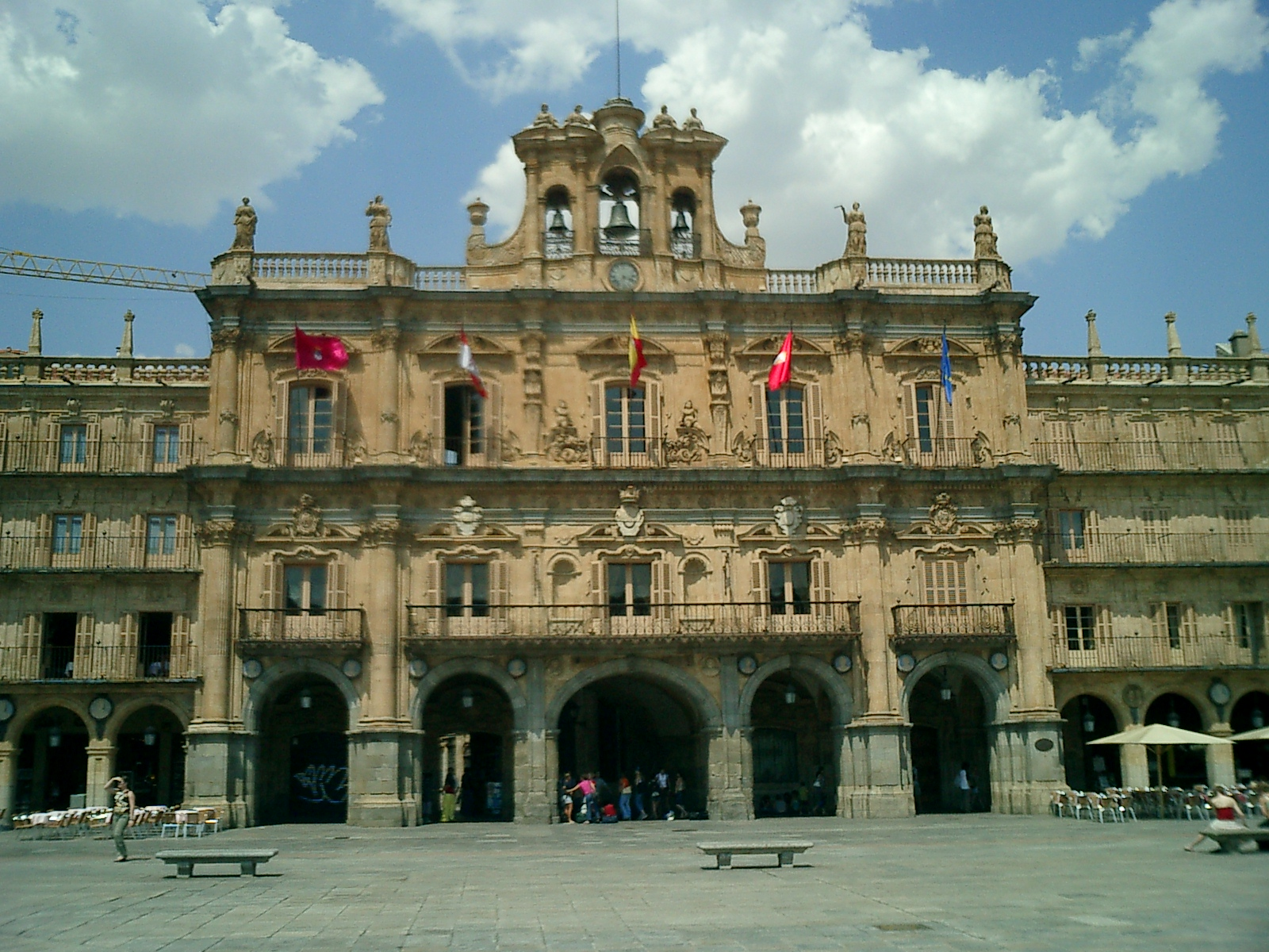 Plaza Mayor, Salamanca, Spain